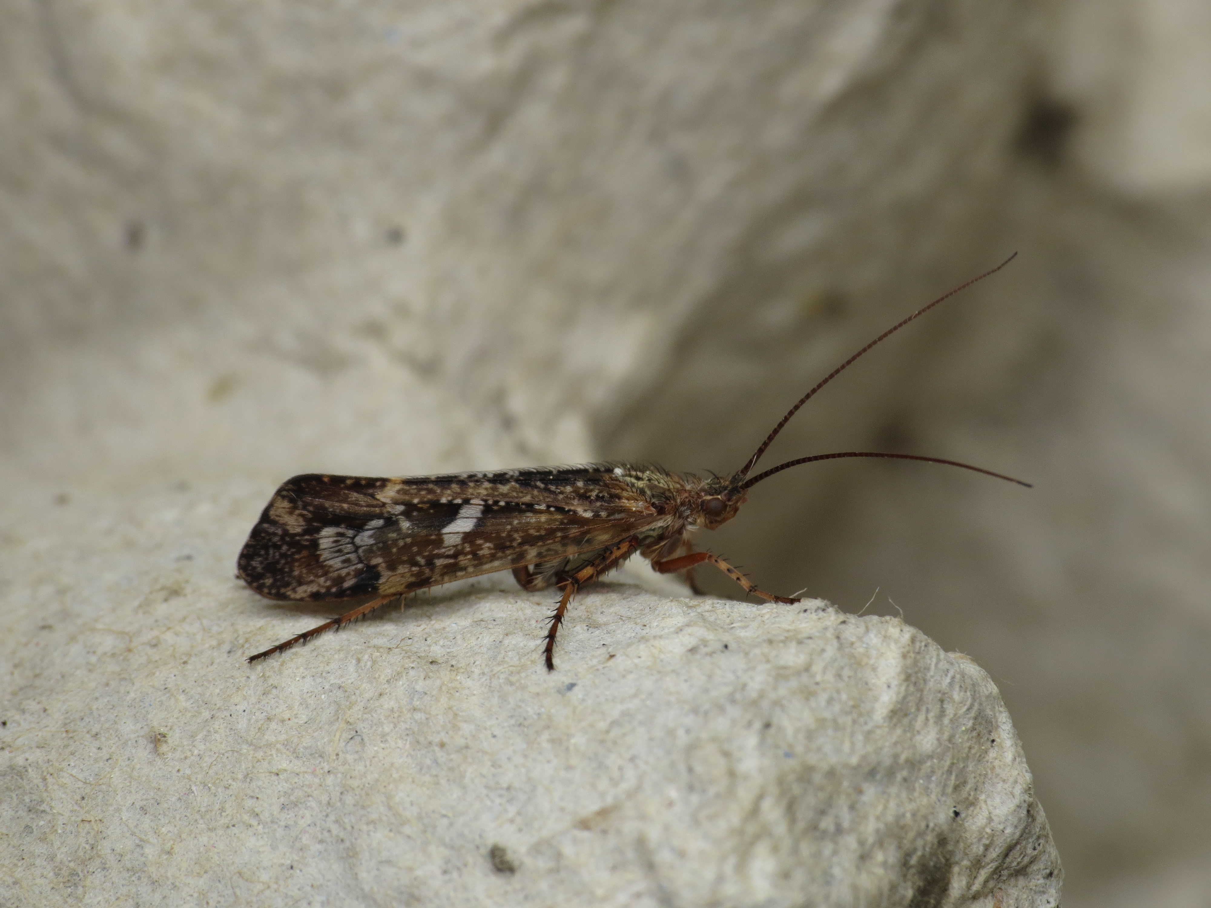 Limnephilus griseus (Linnaeus, 1758), to Robinson trap, Søborg, Denmark, 11/12 May 2015